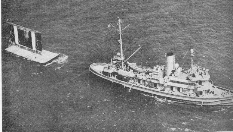 USS Kewaydin (ATO-24) with a target sled in tow, date and place unknown.